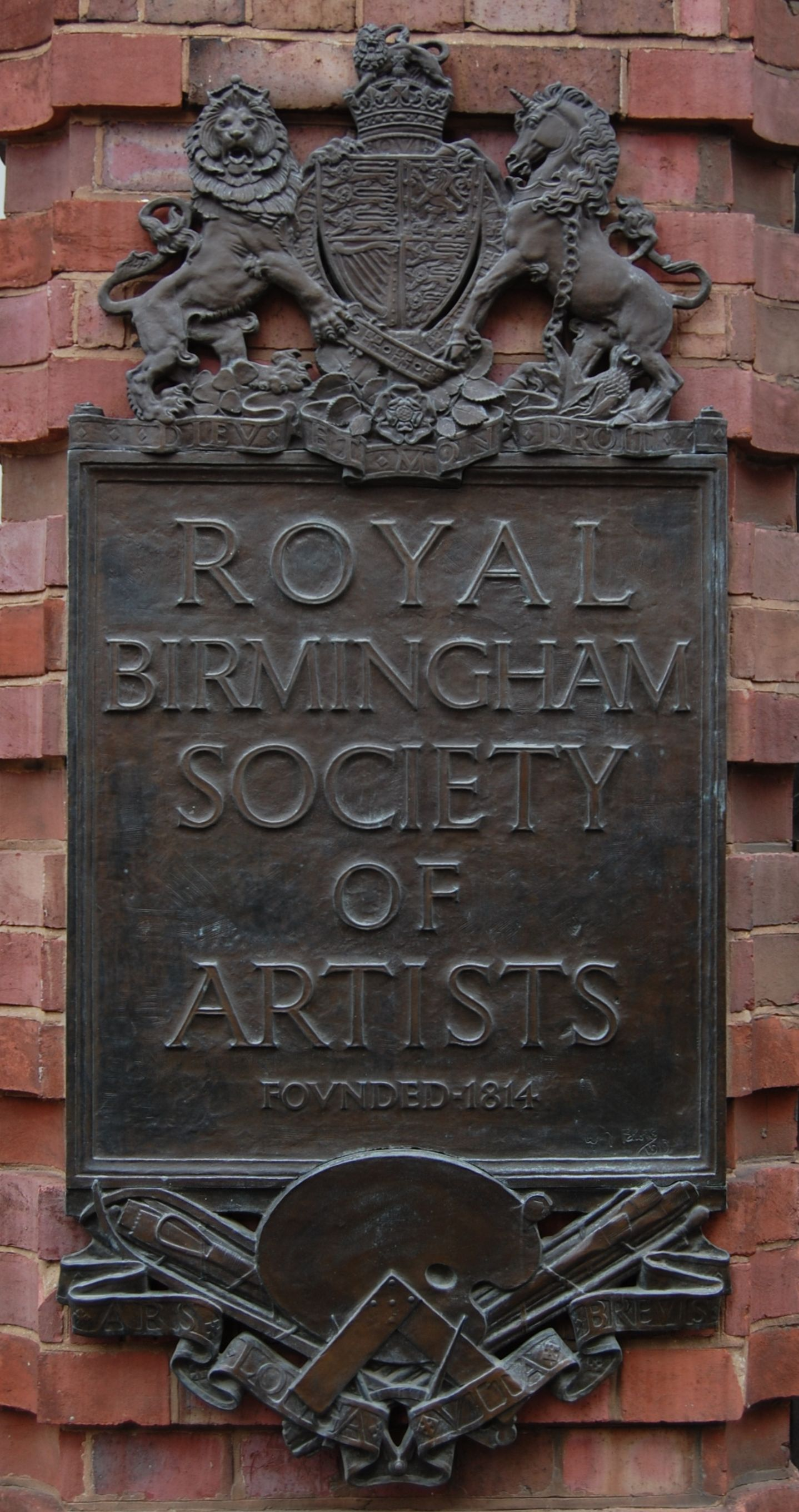 Royal Birmingham Society of Artists' plaques by William Bloye on their gallery in St Paul's Square, Birmingham, England (formerly on their premises in New Street). One of an identical pair, cast in 1919.